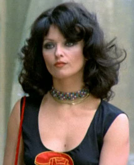 Femi Benussi in La mala ordina (1972).